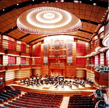 The interior of Petronas Philharmonic Hall (2)